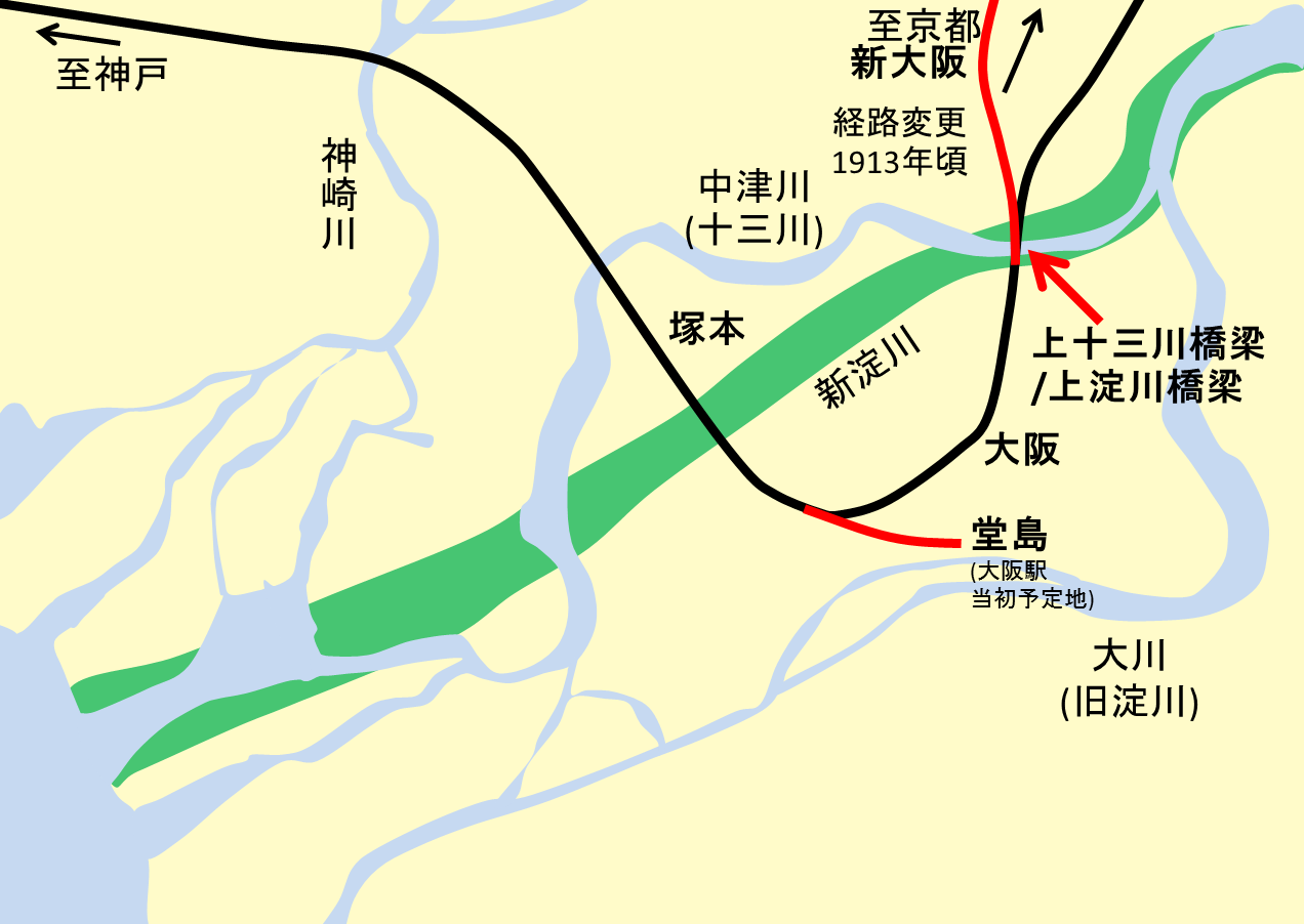 Railway route map around Osaka and position of Kami-Yodogawa bridge including Yodo river construction work